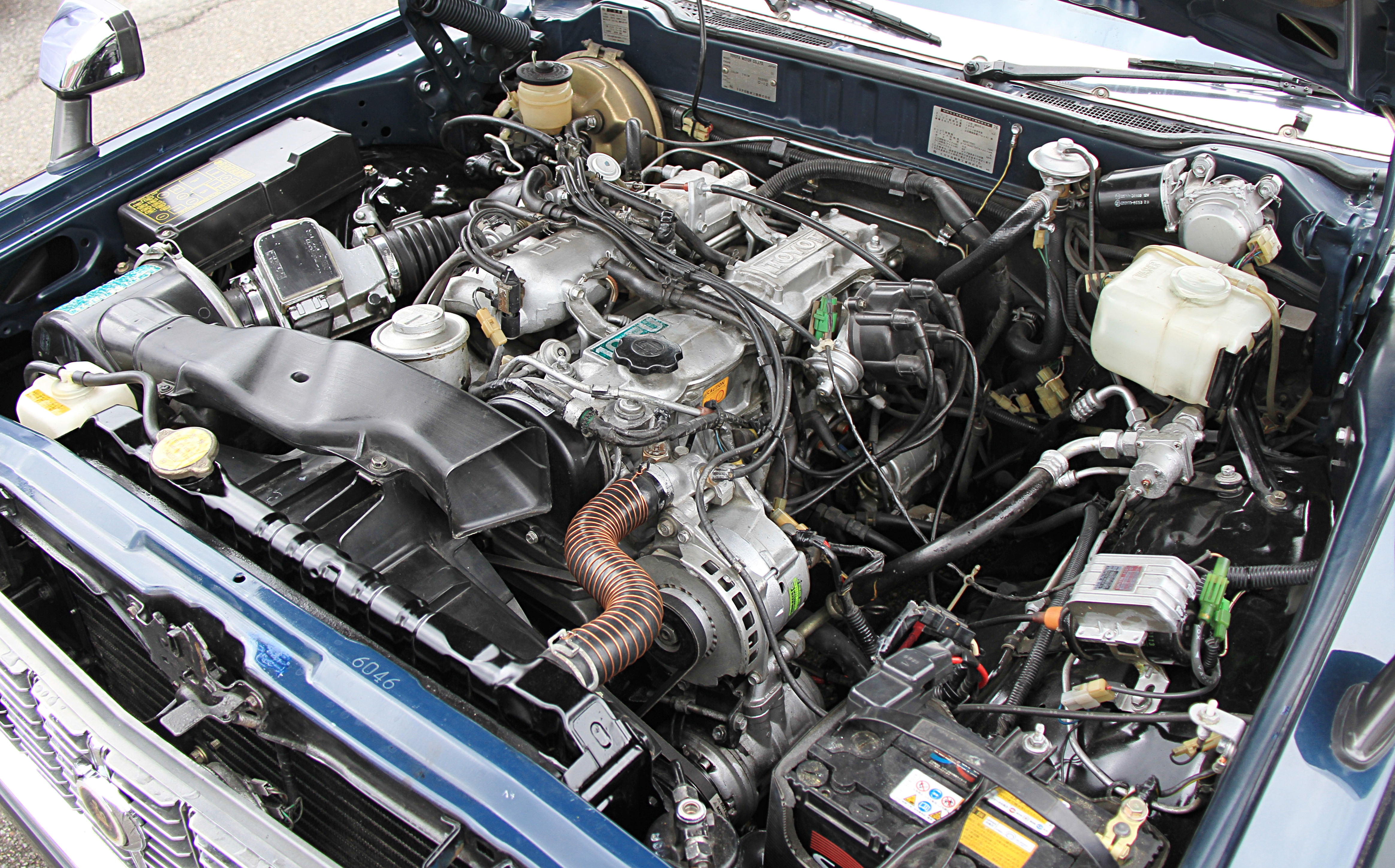 Toyota 1G-EU for E-GS110 SENGE(L)